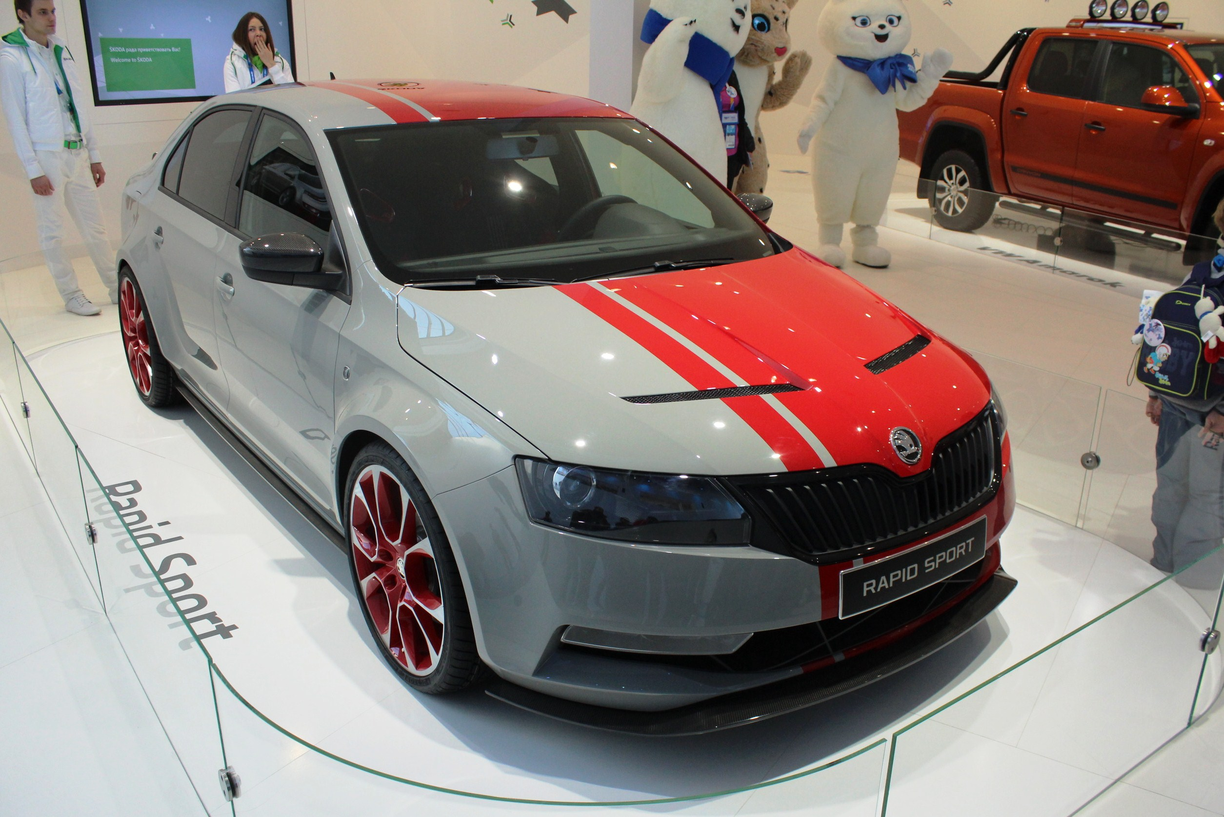 Škoda Rapid Sport during 2014 Winter Olympics in Sochi.